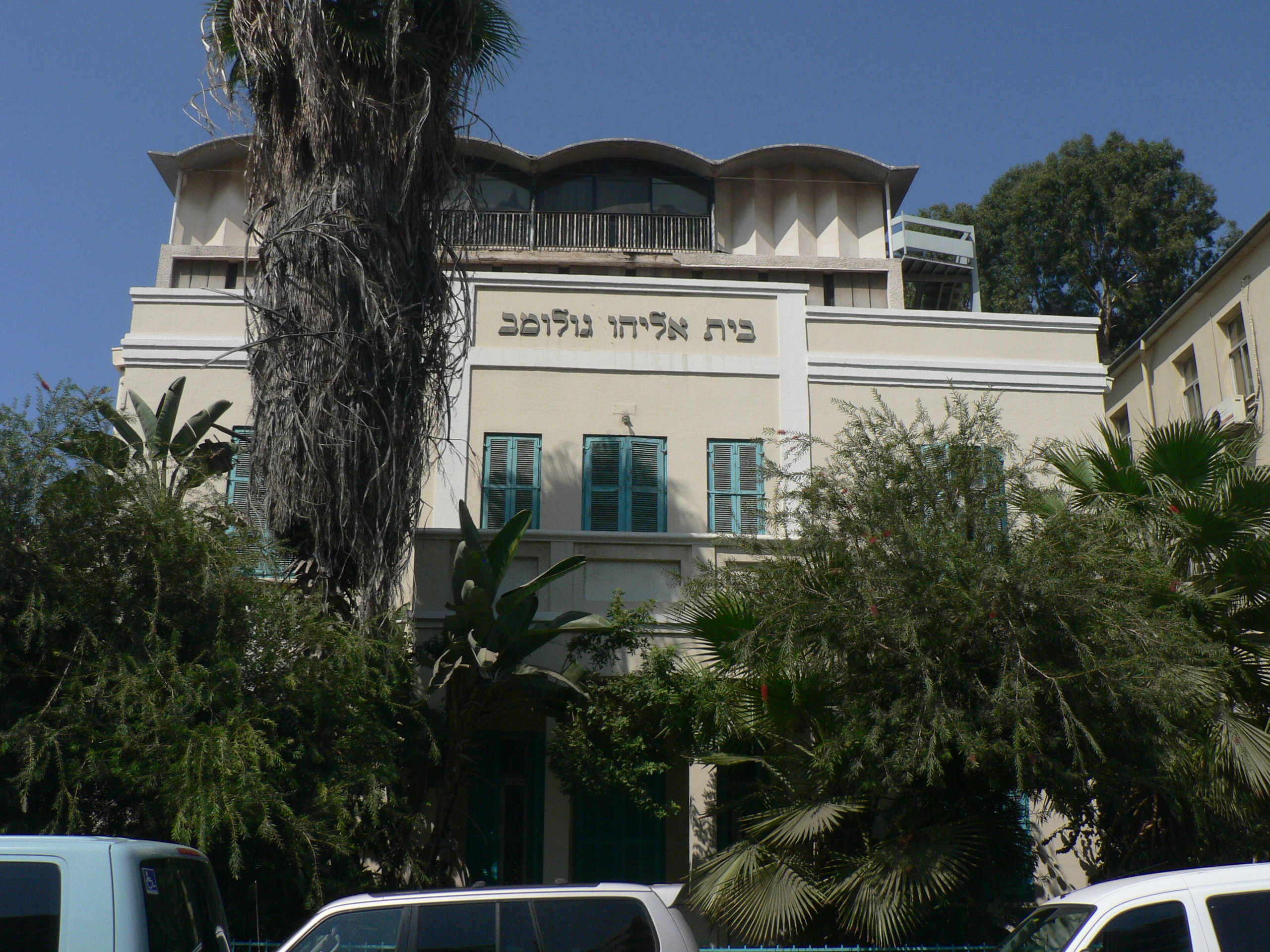 House of Eliyaho Golomb, the commander of Hahagannah in Rotschild Boulevard 23, Tel Aviv, Israel